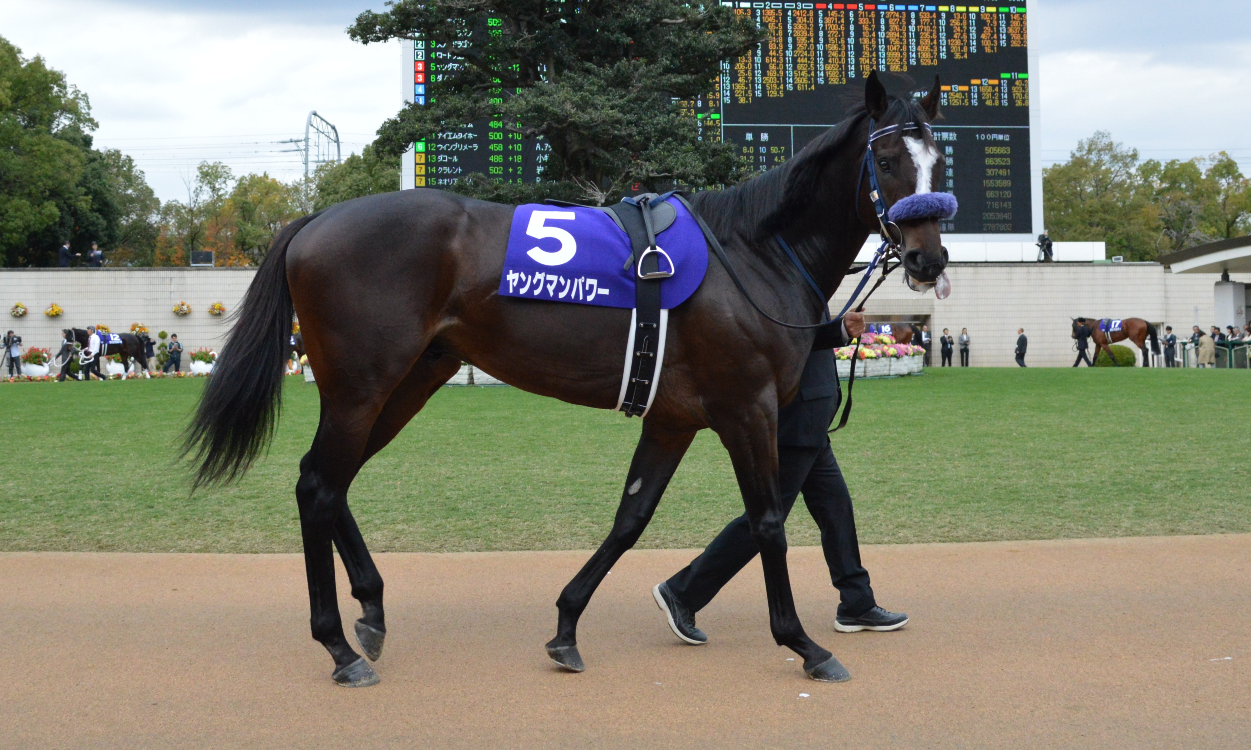 Japanese race horse Young Man Power at Kyoto racecourse.